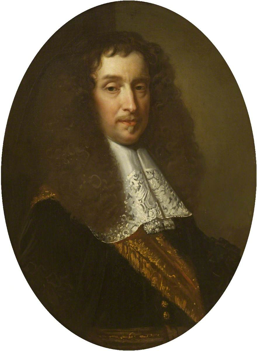 Portrait of Dr Peter Barwick